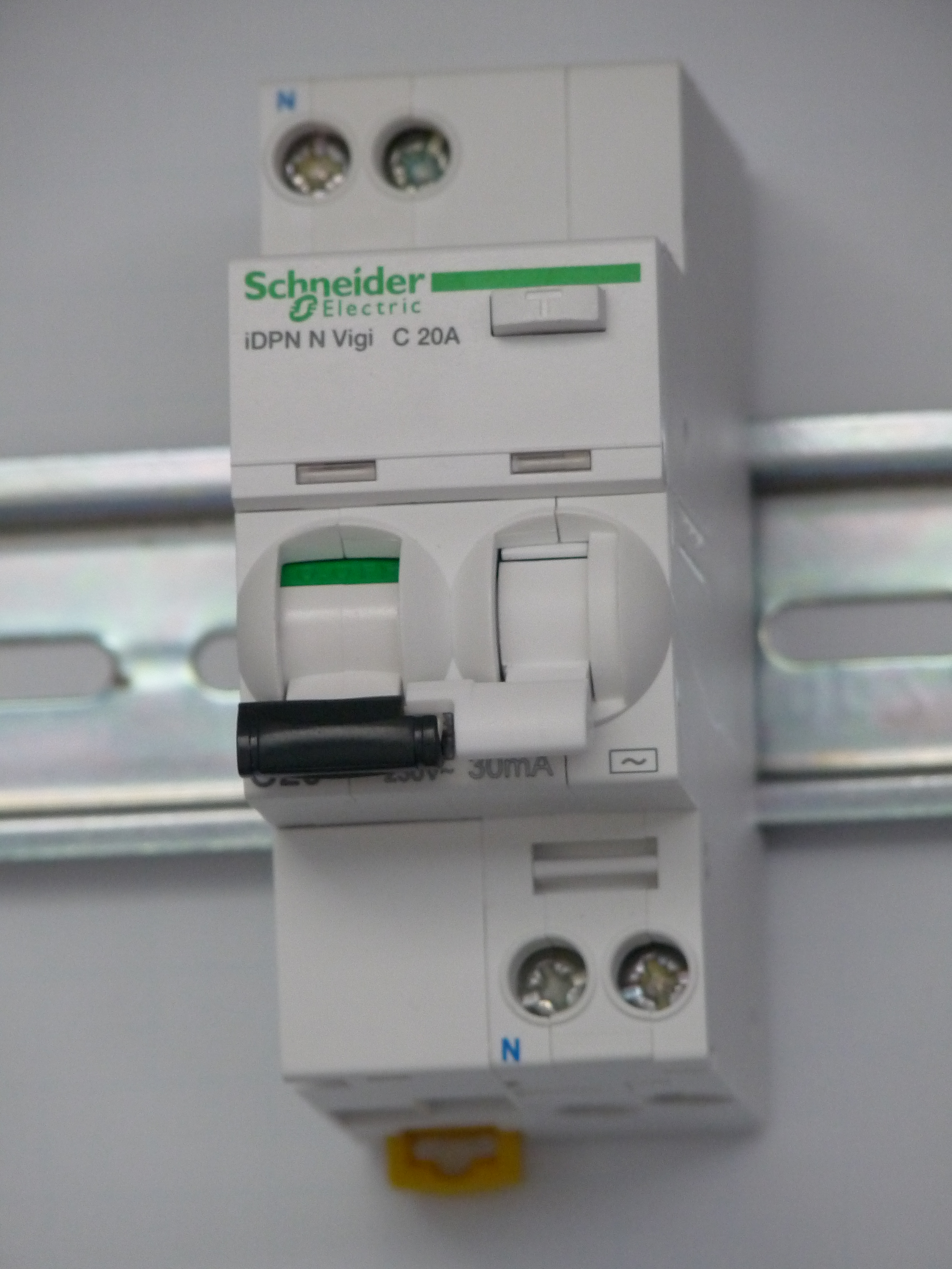 Acti9 iDPN Vigi RCBO 20A/30mA with C-characteristic